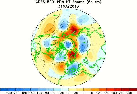 Oscillation Teleconnections polar map CDAS NH 500-hPa HT Heights (5 d rm) 30 may 2013: Analyzed 500-hPa heights and anomalies. Image is an five-day mean, centered on the date indicated in the title, of 500-hPa heights and anomalies from the NCEP Climate Data Assimilation System (CDAS). Contour interval for heights is 120 m, anomalies are indicated by shading. Anomalies are departures from the 1979-95 daily base period means. (Text after NOAA, Northern Hemisphere 500 hecto Pascals Height Anomalies Animation) Extracted from 30-day loop; polar map was rotated 90° (Europe at bottom) to illustrate inverse omega constellation of eastern european low between atlantic and scandinavian highs, causing severe floods of May/June in Central Europe.